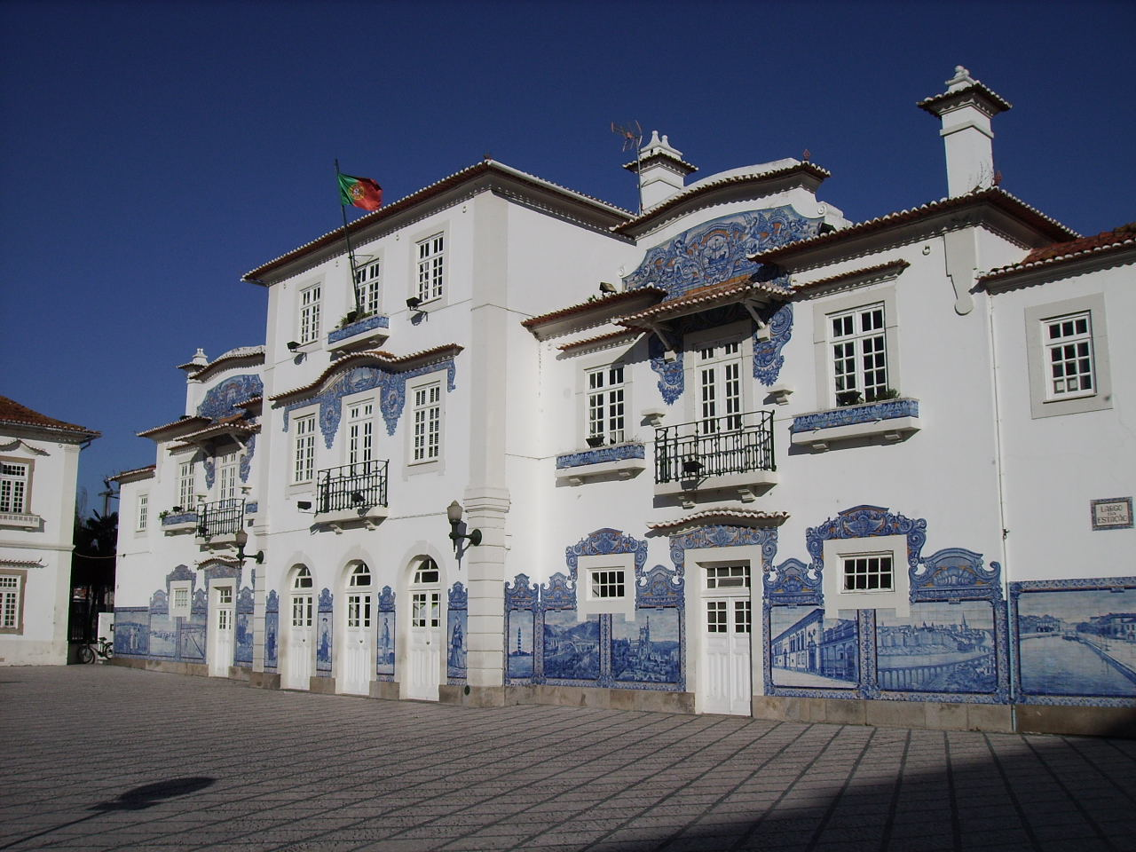 The old train station of Aveiro at Linha do Norte railway, Portugal